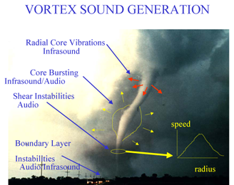 A picture of a tornado showing the kinds and sources of vortex infrasound generation.